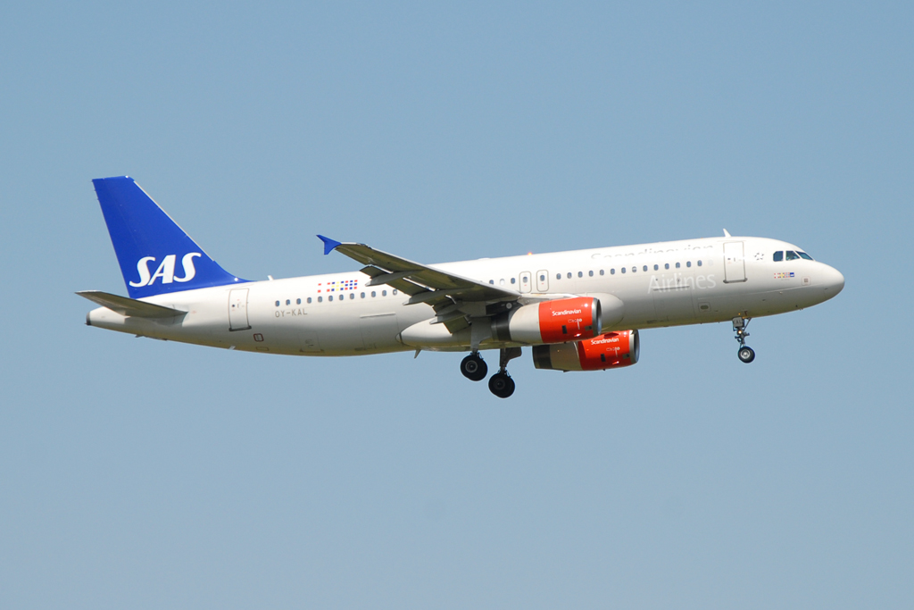 OY-KAL SAS Airbus A320-232 msn 2883 seen on short finals for 09L at London Heathrow (LHR/EGLL).